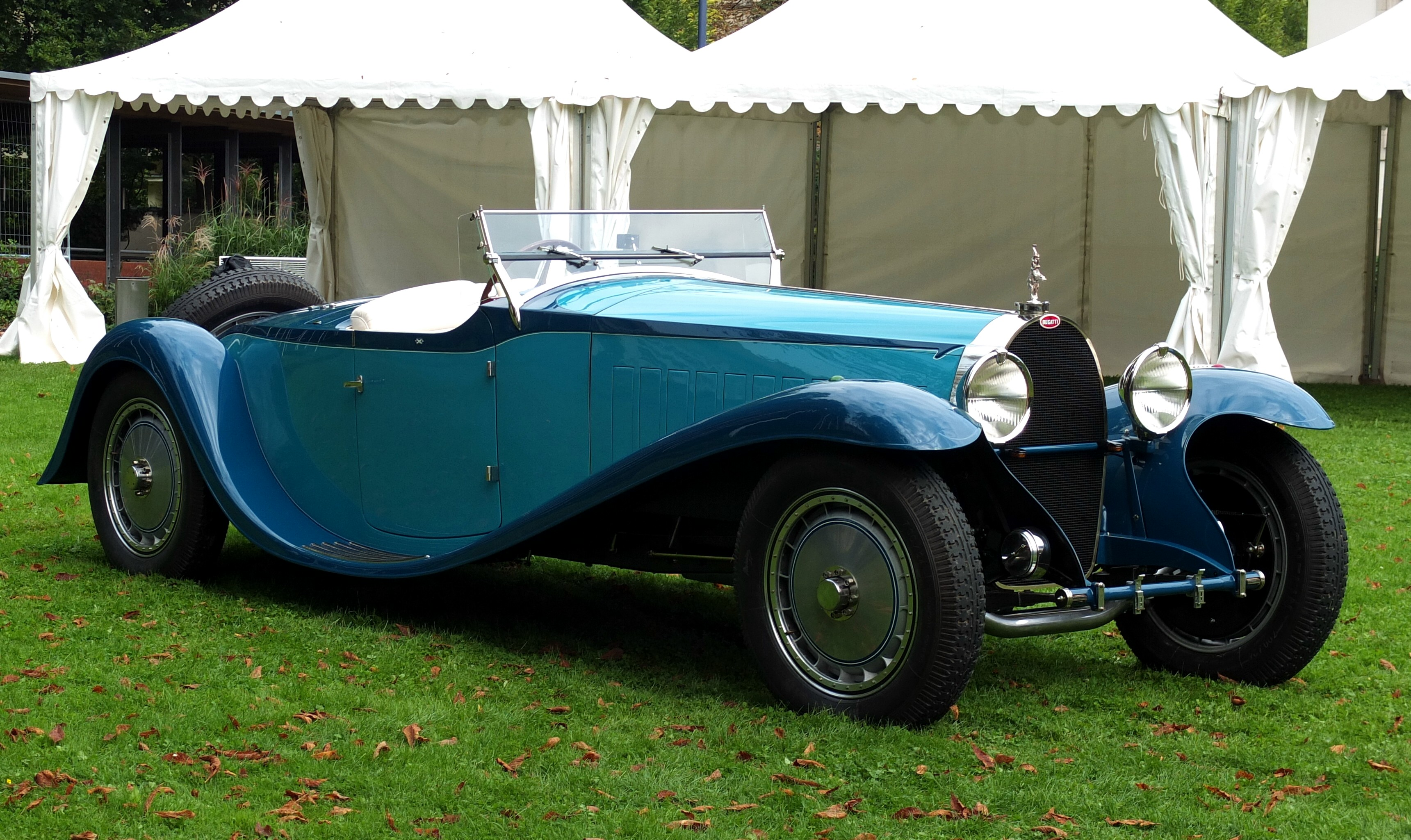 Bugatti Type 41 "Esders Roadster Royale", replica of the unique 1932 roadster[1] that was especially designed for Dr. Armand Esders, a clothing manufacturer, seen at Concours d'Élégance in Mondorf-les-Bains, Luxembourg ↑